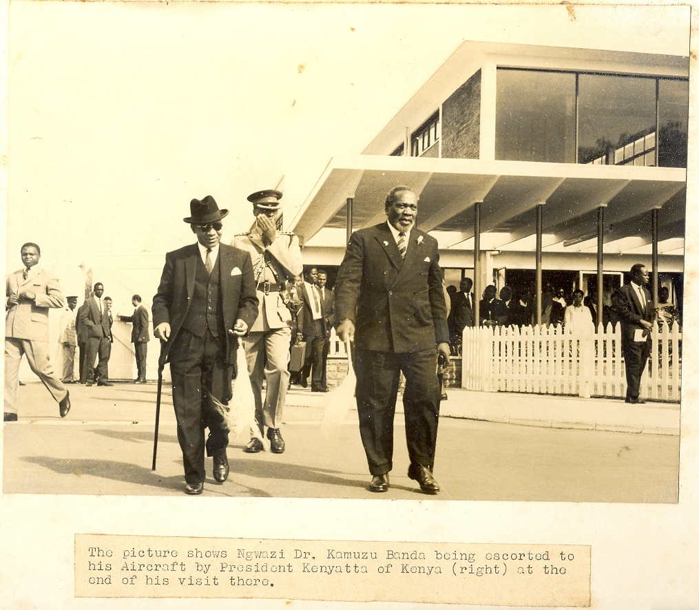 Jomo Kenyatta escorts Dr Banda at the end of the latters visit